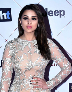 Parineeti Chopra at the 2018 HT Style Awards